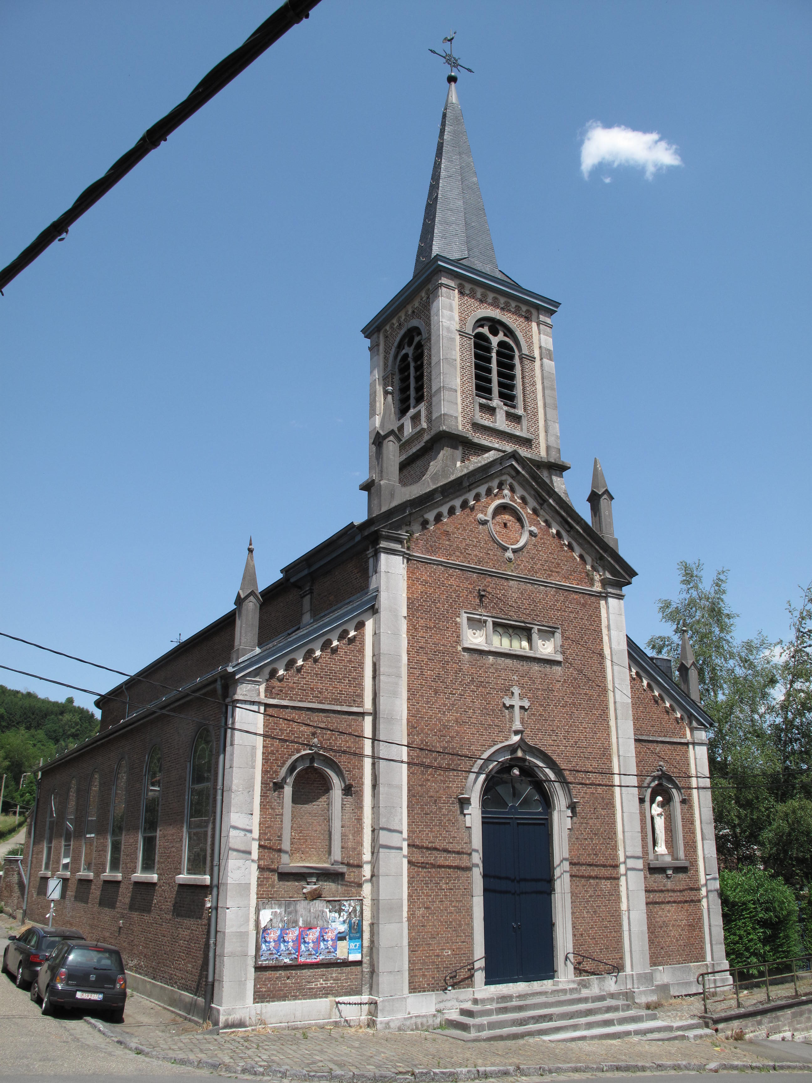 Nessonvaux, church